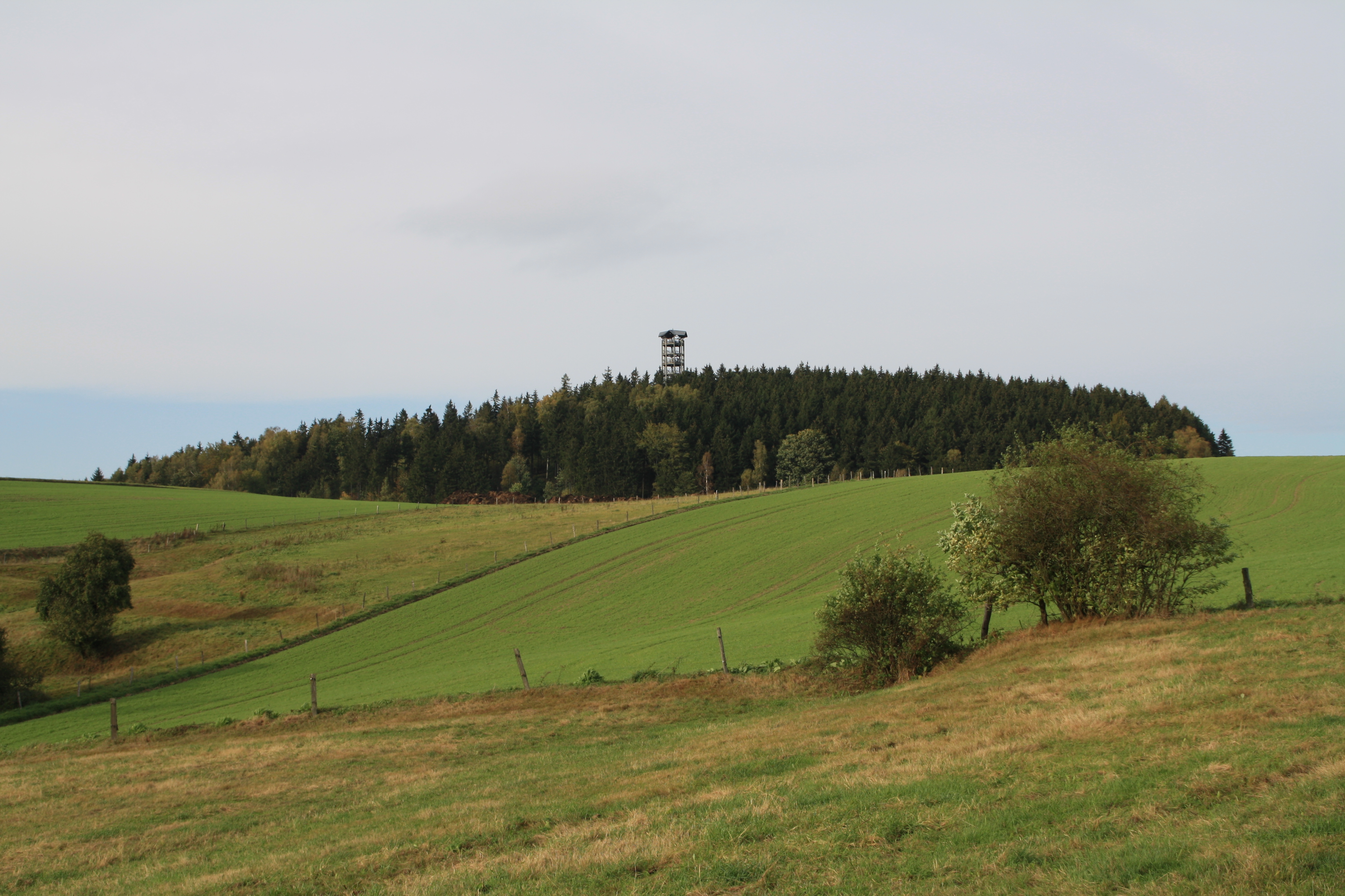 Mountain Weifberg near Hinterhermsdorf in the Saxon Switzerland.